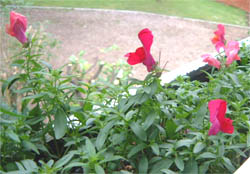 Snapdragon. Photo taken by Tarquin 09:08 4 Jul 2003 (UTC)